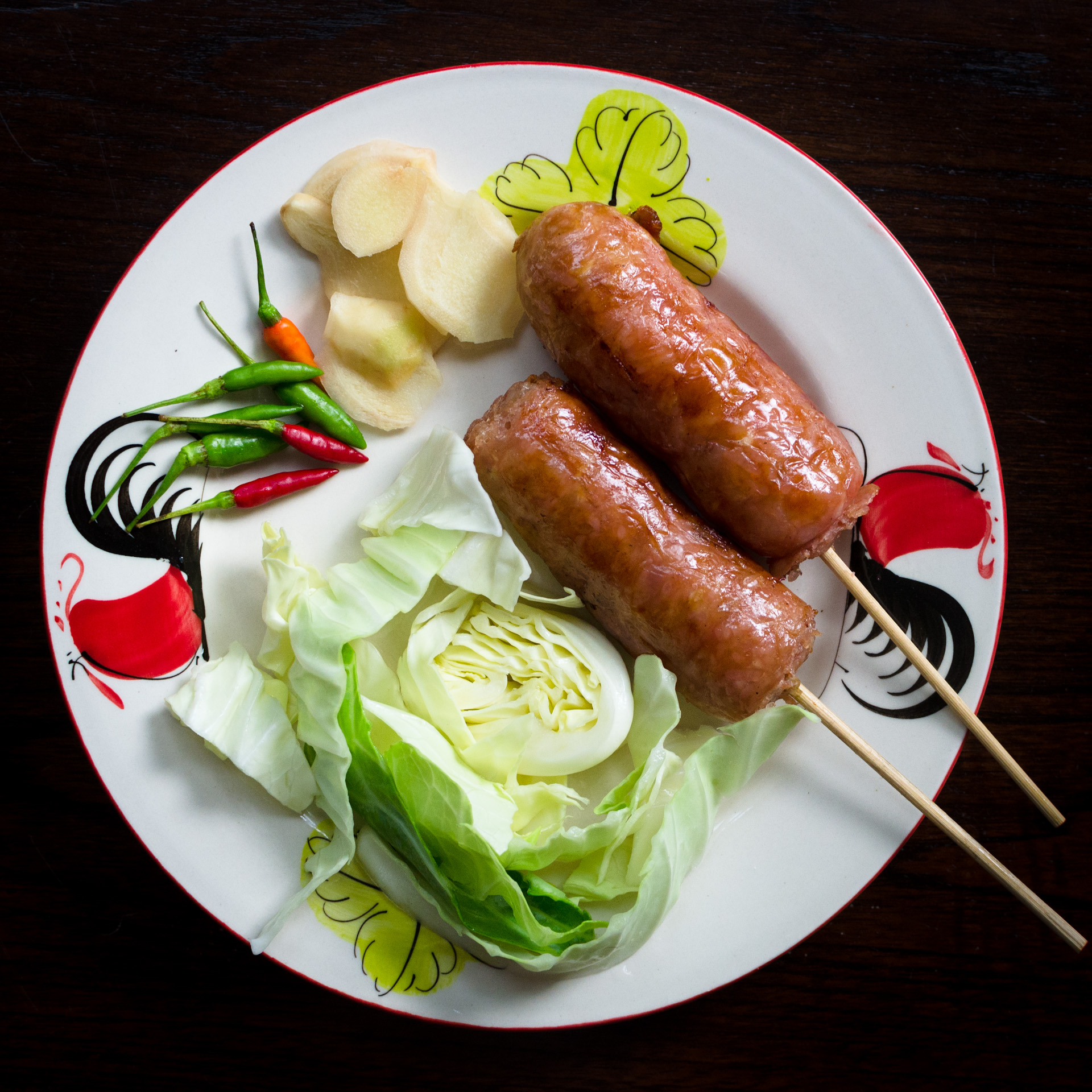 Sai krok Isan (Thai script: ไส้กรอกอีสาน): grilled fermented pork and sticky rice sausage, originally from the Isan region of Thailand. It is popular as a snack and often, as was the case here, sold at street stalls as take-out food.